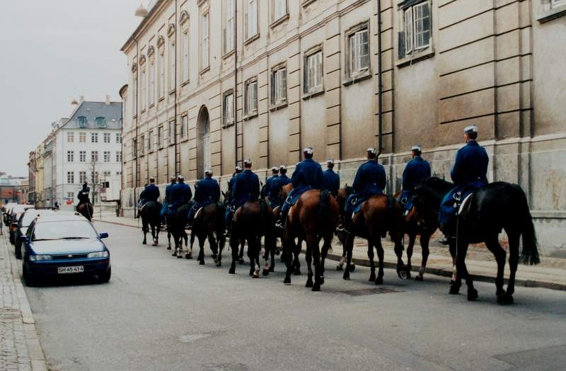 Christiansborg Palace (Copenhagen 2000)